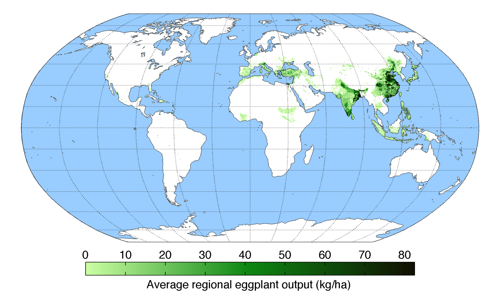 Map of eggplant production (average percentage of land used for its production times average yield in each grid cell) across the world compiled by the University of Minnesota Institute on the Environment with data from: Monfreda, C., N. Ramankutty, and J.A. Foley. 2008. Farming the planet: 2. Geographic distribution of crop areas, yields, physiological types, and net primary production in the year 2000. Global Biogeochemical Cycles 22: GB1022